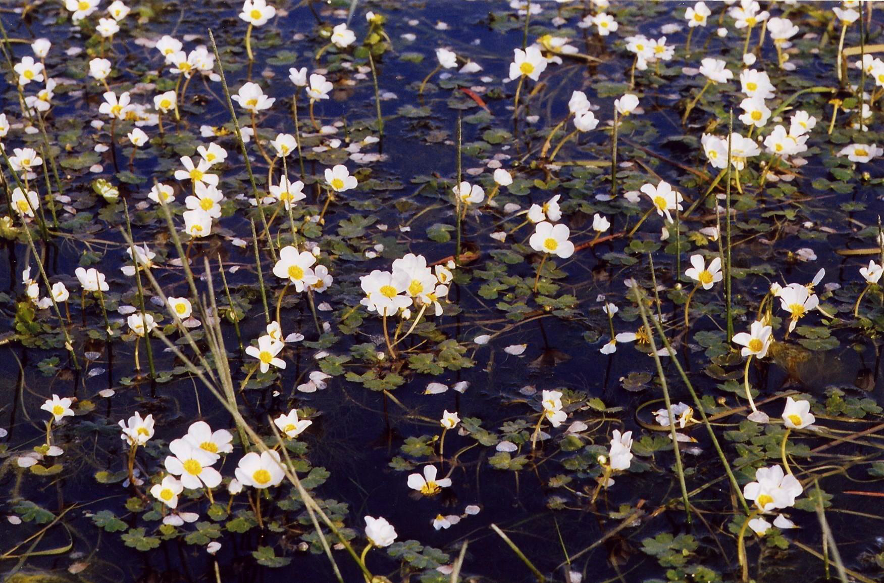 Flowering plants of Ranunculus aquatilis agg. (Ranunculaceae).